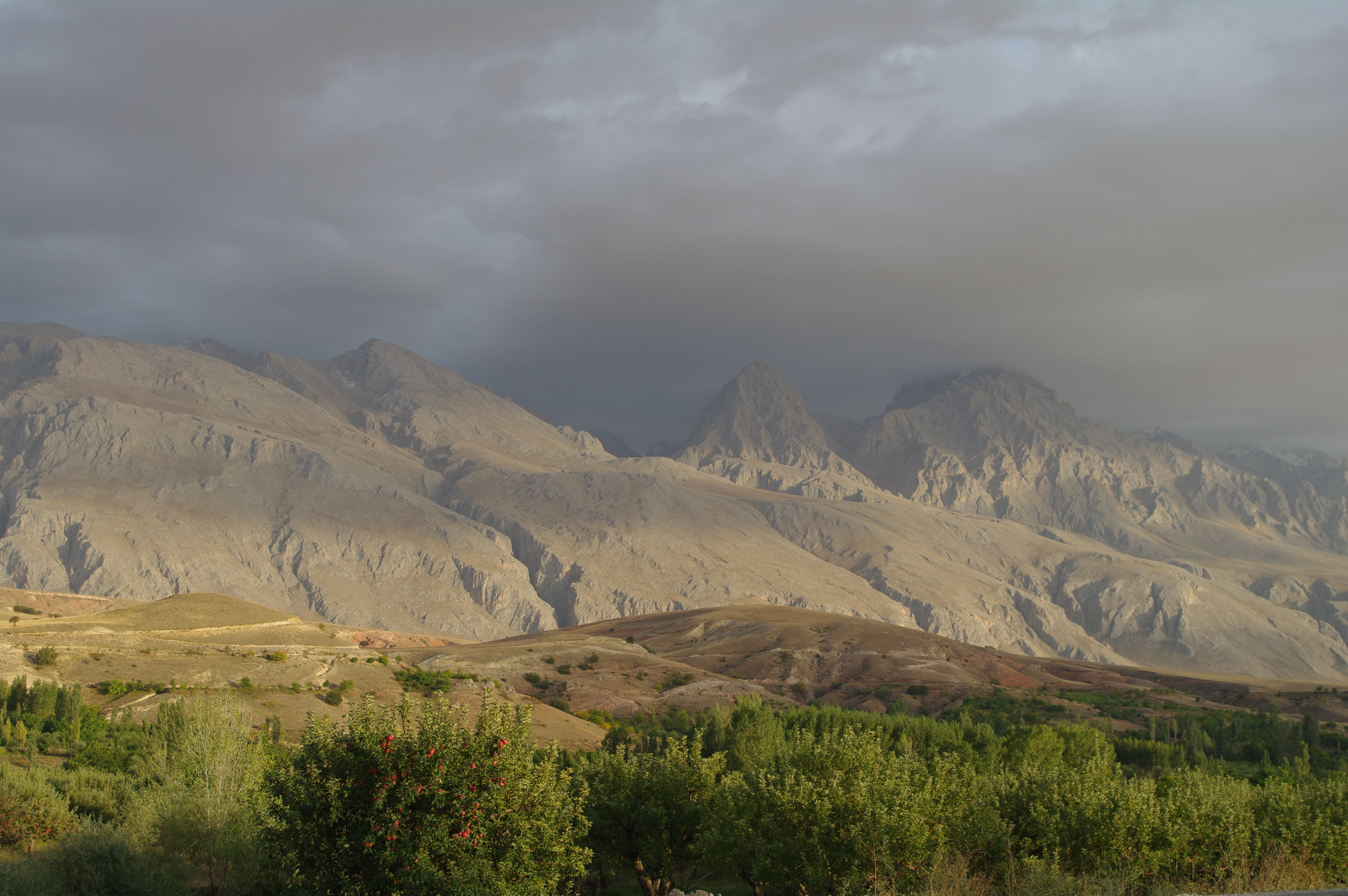 Kücükdemirkazık (left) and Büyükdemirkazık (right) summits of Aladaglar chain of mountains in Nigde Province of Turkey. Aladaglar, the mid part of Taurus Mountains is located in south of Niğde province and north of Adana province.